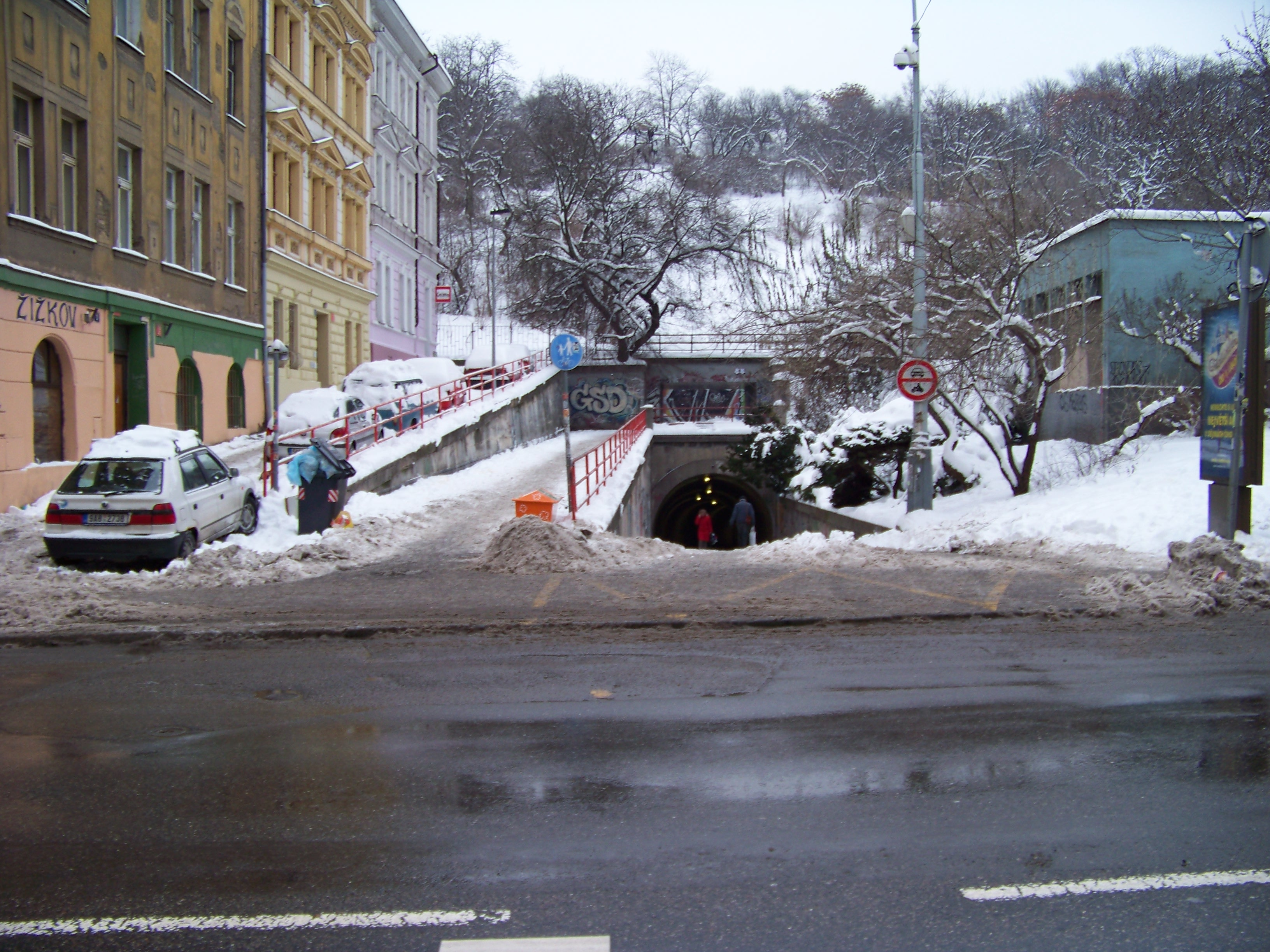 Prague-Žižkov, the Czech Republic. Tachovské Square, the pedestrian tunnel.